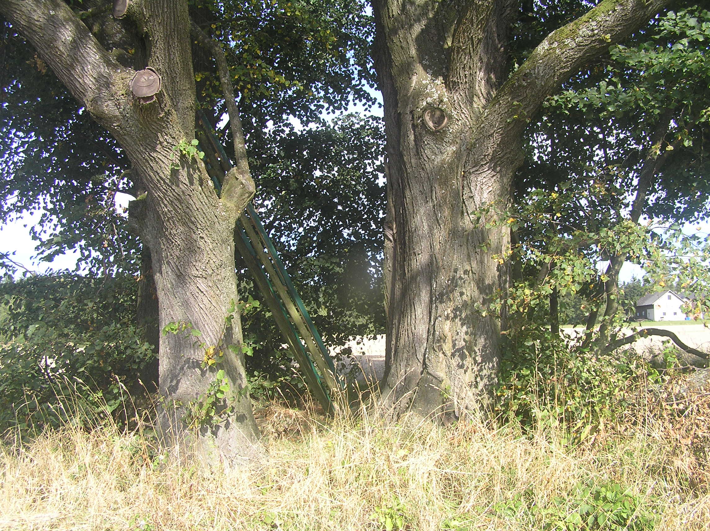 Bouchalovy lípy, Pastviny, Czech Republic